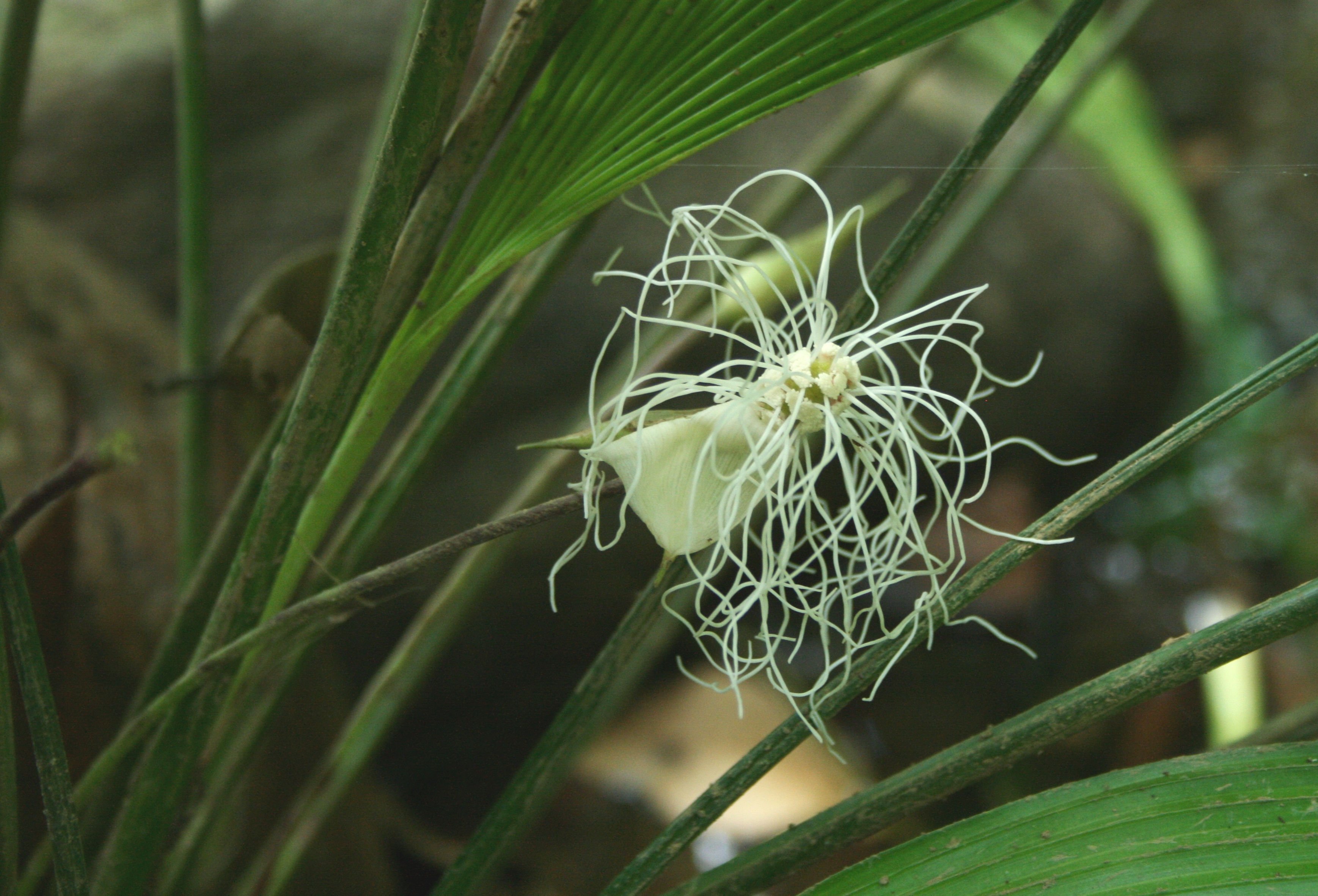 Inflorescence of Dicranopygium yacu-sisa, Rio Tabaro, Venezuela